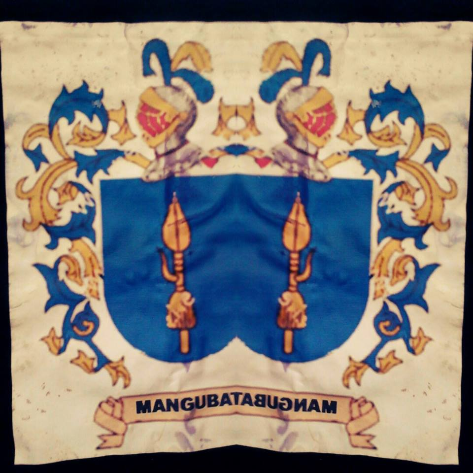 Mangubat family name 16th century coat of arms